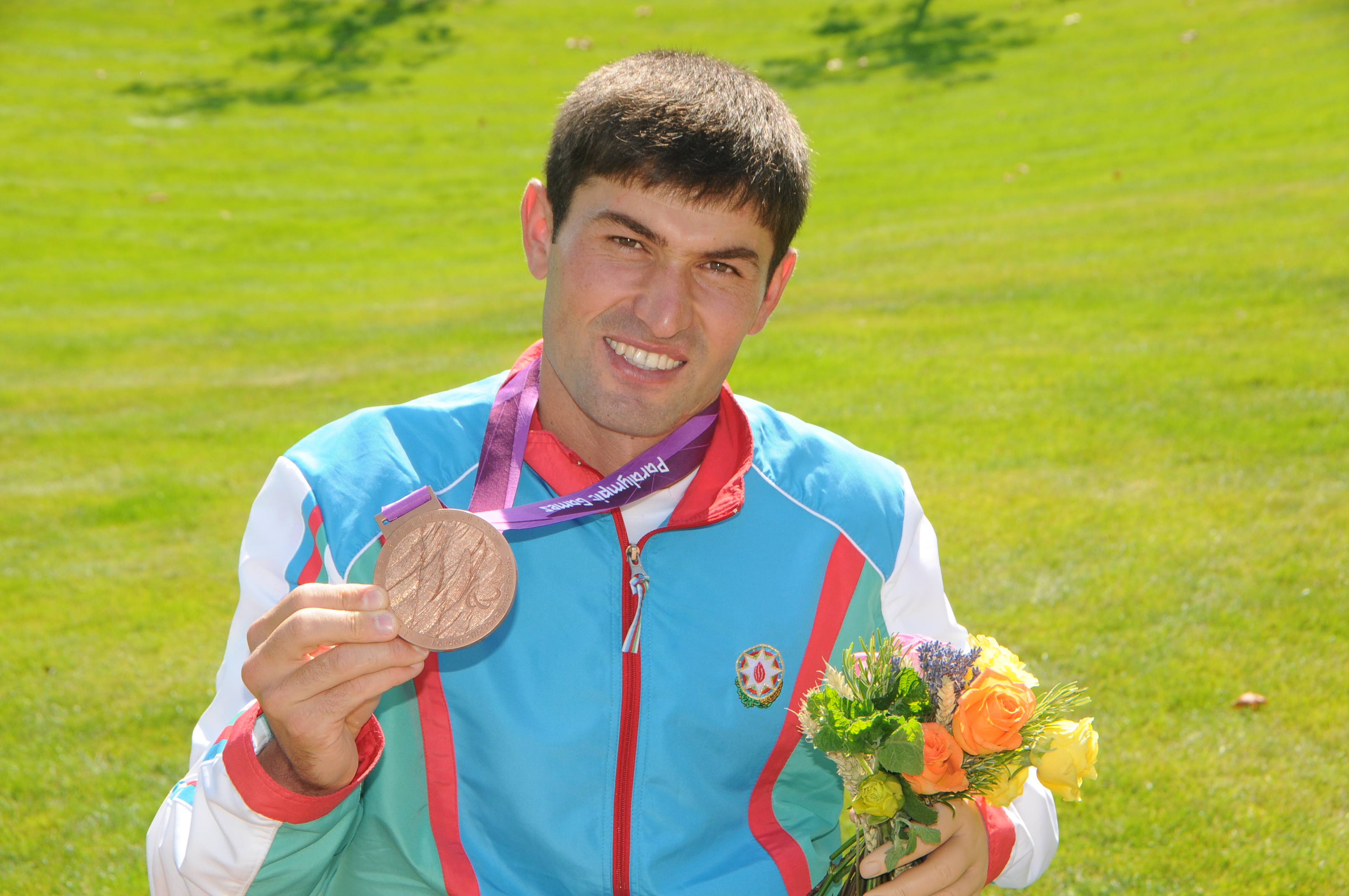 Huseyn Hasanov at the 2012 Summer Paralympics